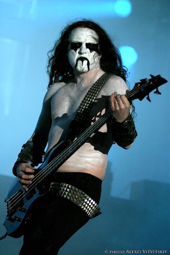 Apollyon during the Immortal concert at the 2007 Wacken Open Air.